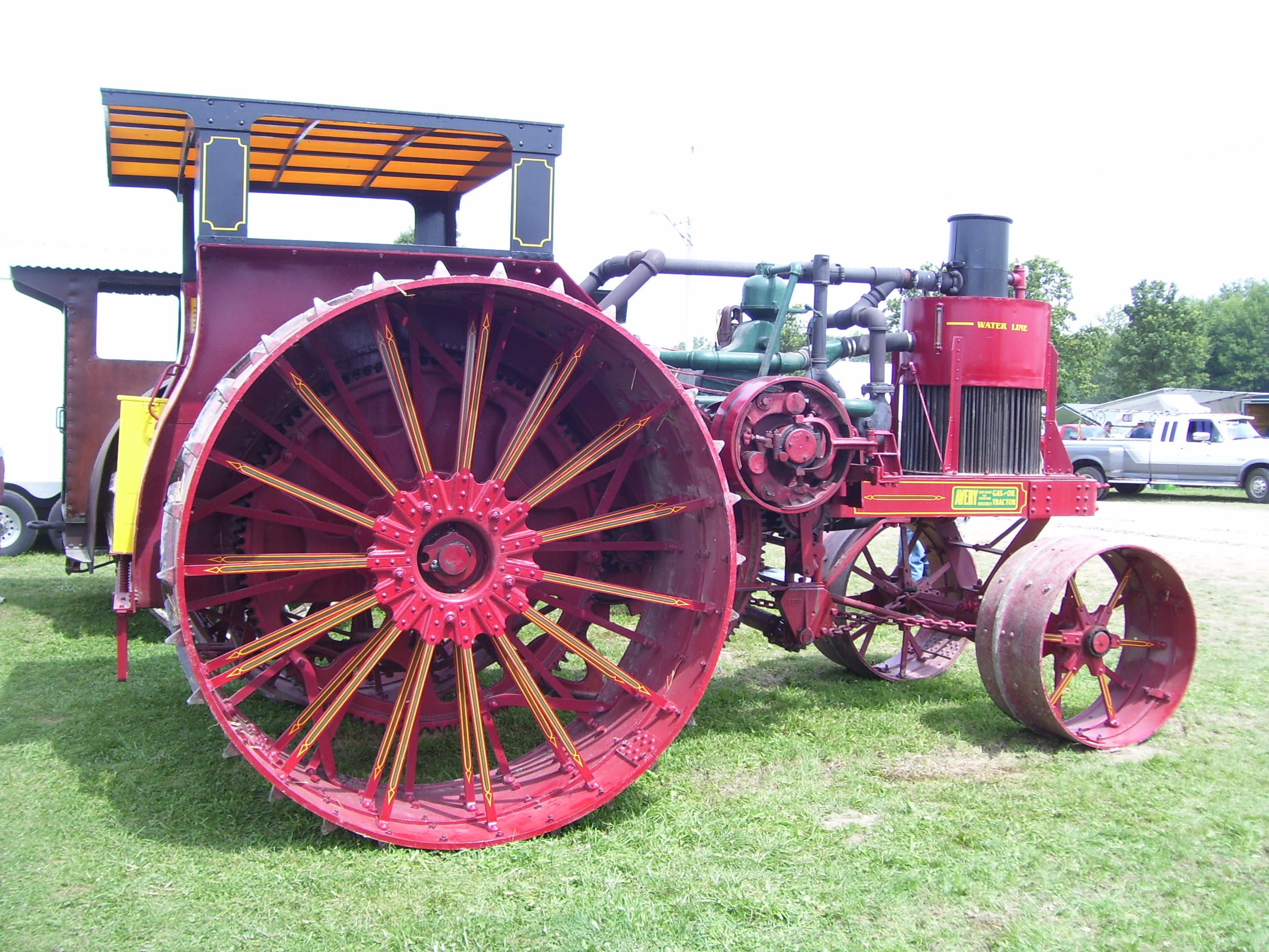 Avery Company oil pull